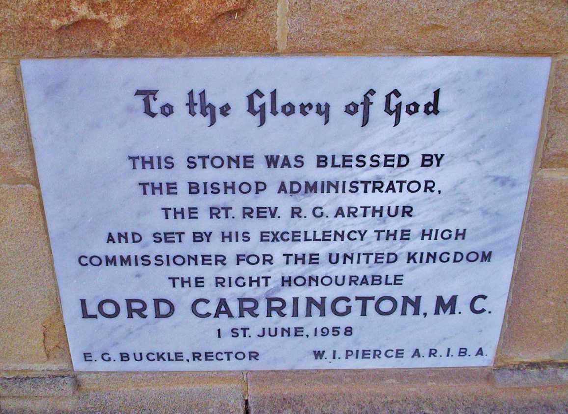 Plaque on All saints church in Ainslie